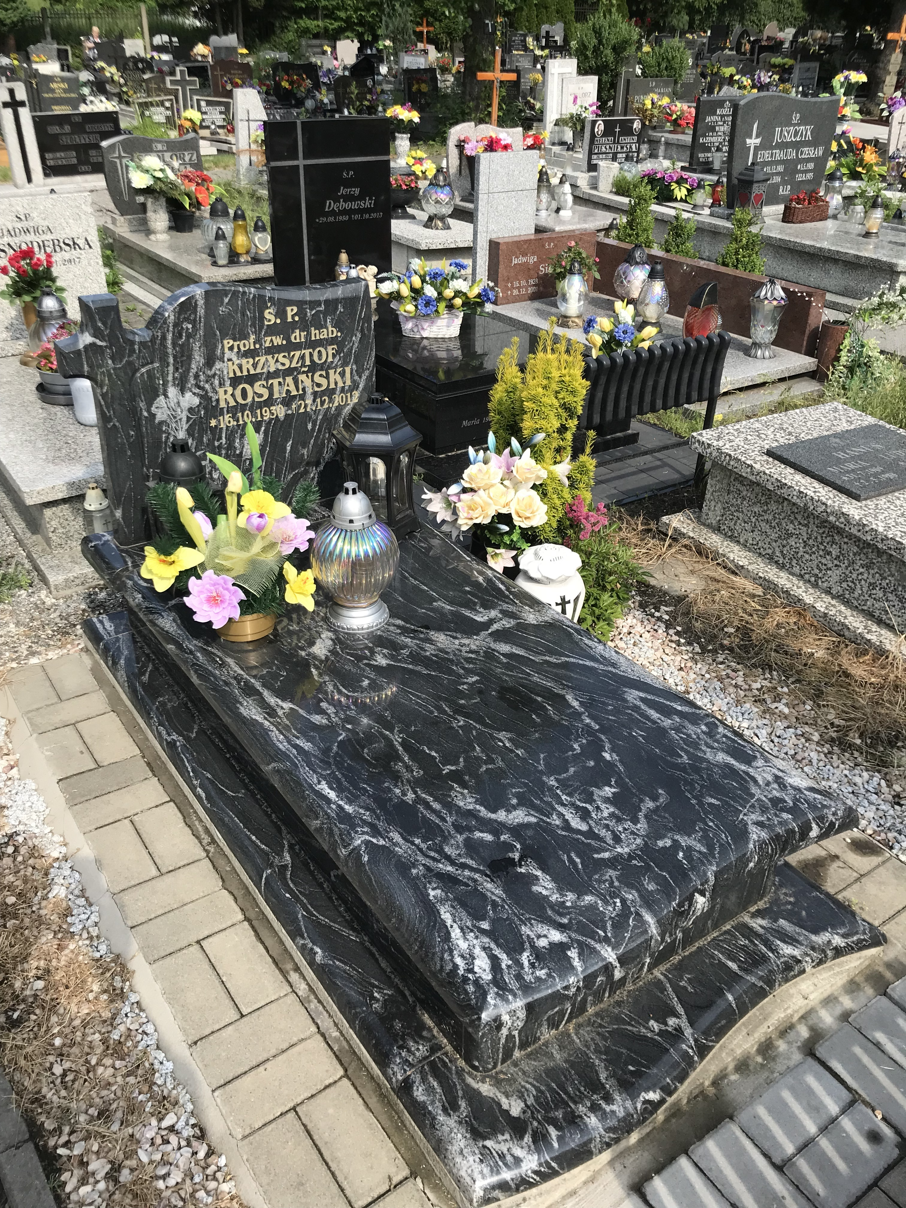 Tomb of professor Krzysztof Rostański (1930-2012) in Katowice, cemetery on Józefowska Street